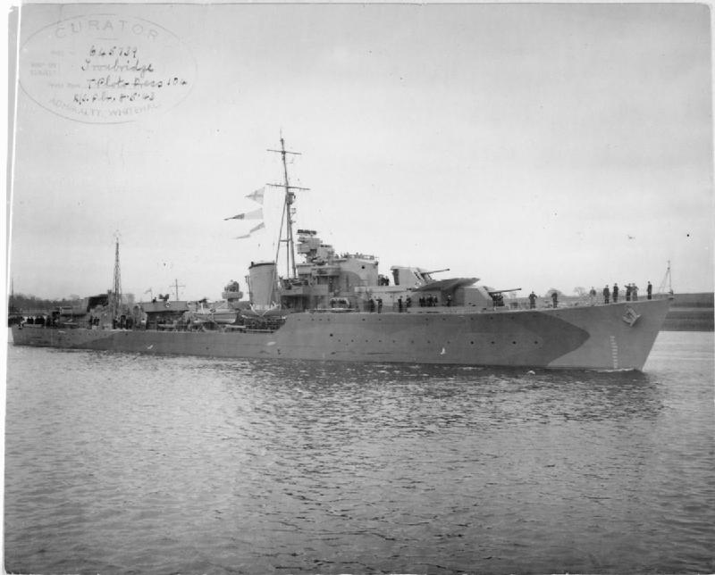 HMS Troubridge Underway